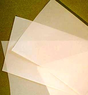 paper